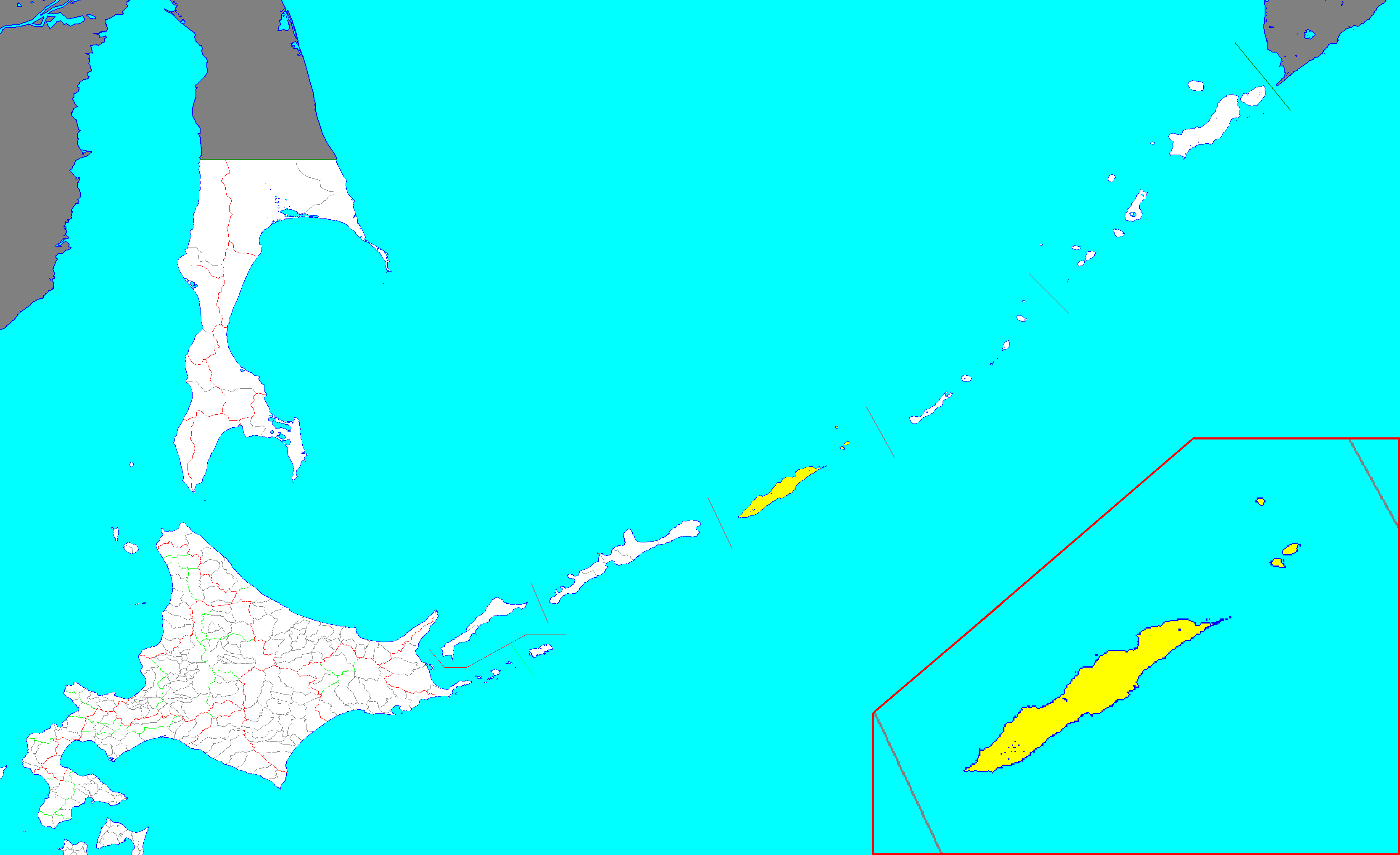 location of Uruppu in Chishima Subprefecture, Hokkaido Prefecture, Japan(1876/01/14)